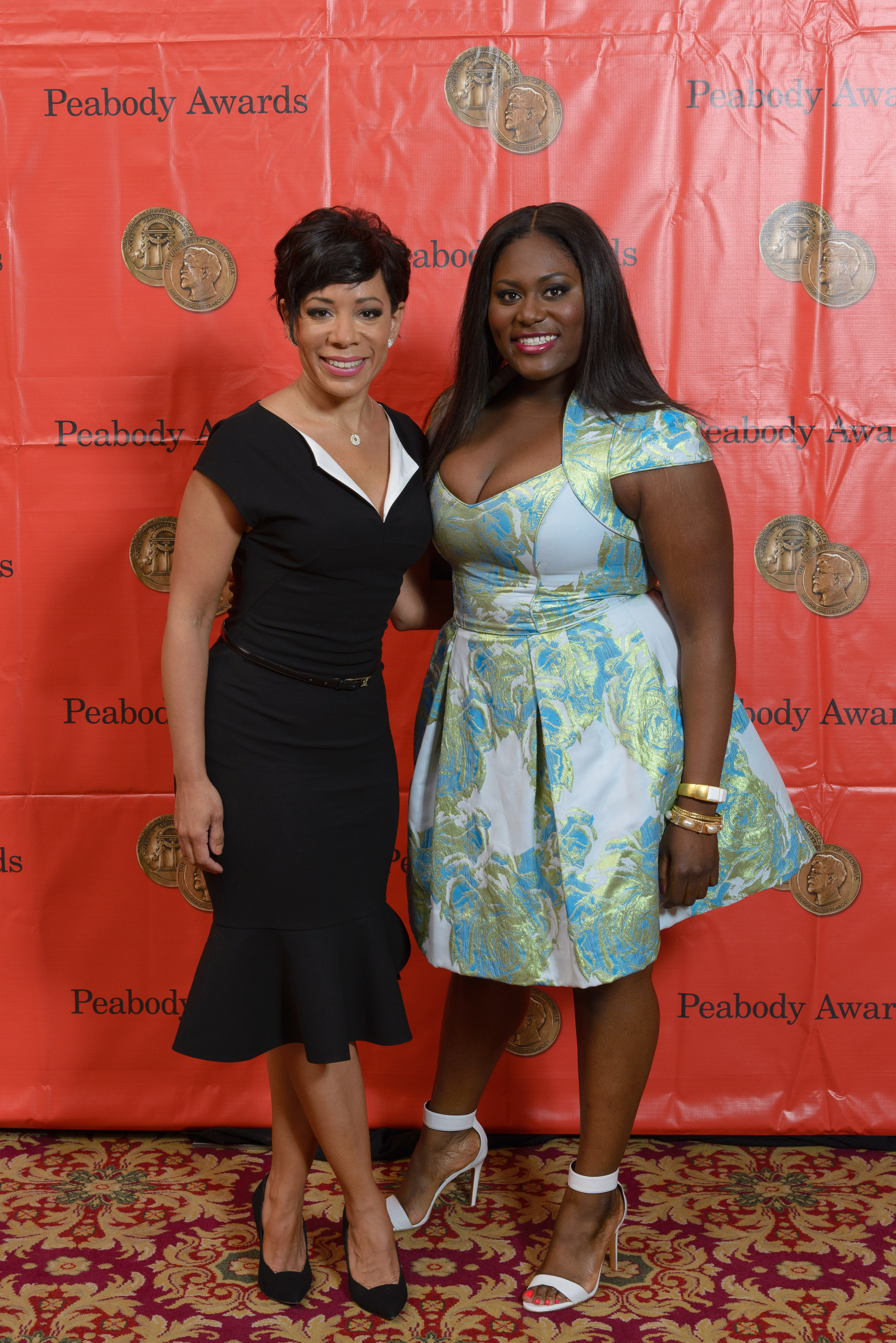 Orange is the New Black cast at the 73rd Annual Peabody Awards.